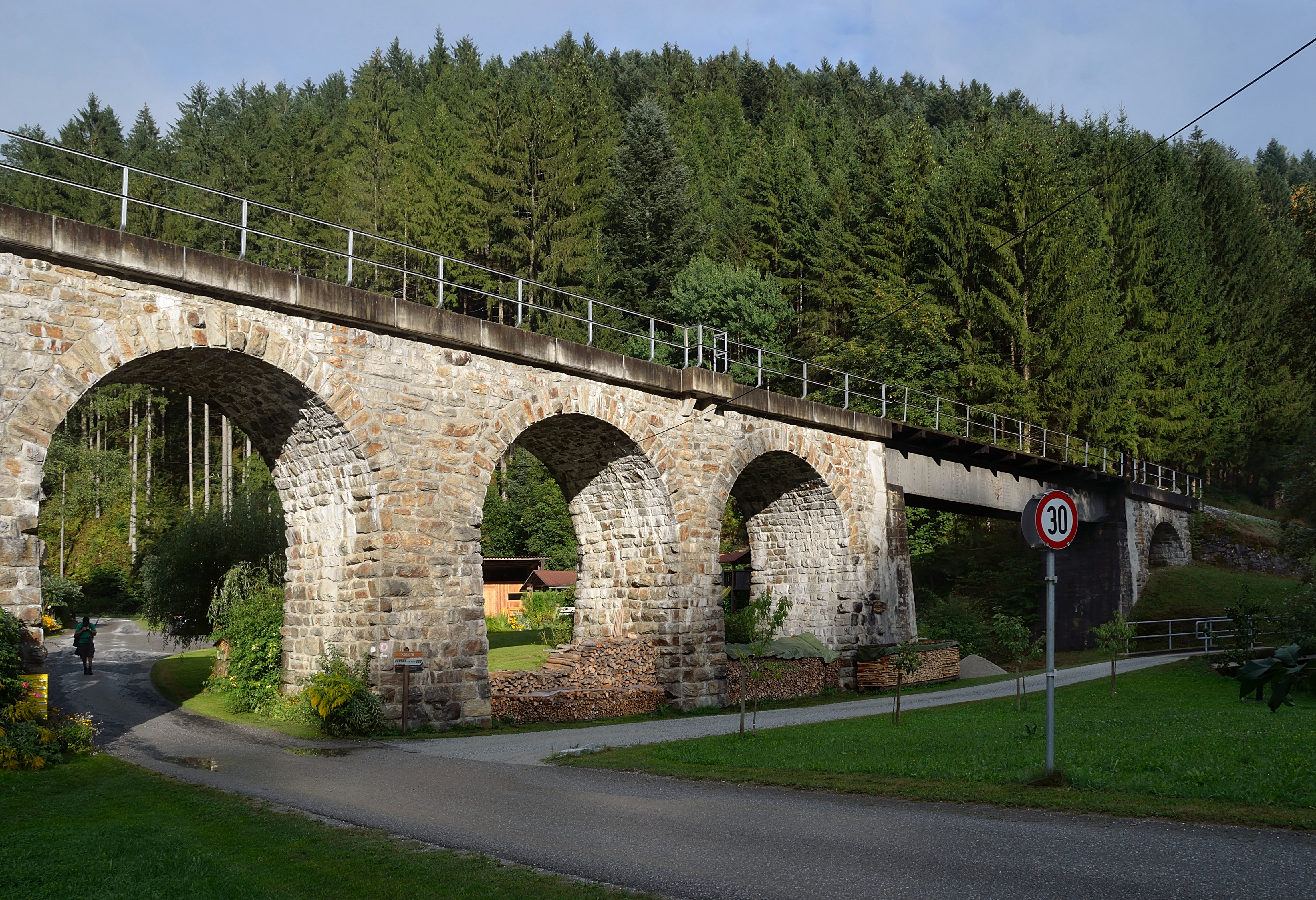 The Hollersbach viaduct of the Feistritztalbahn, a small narrow gauge railway in Styria.